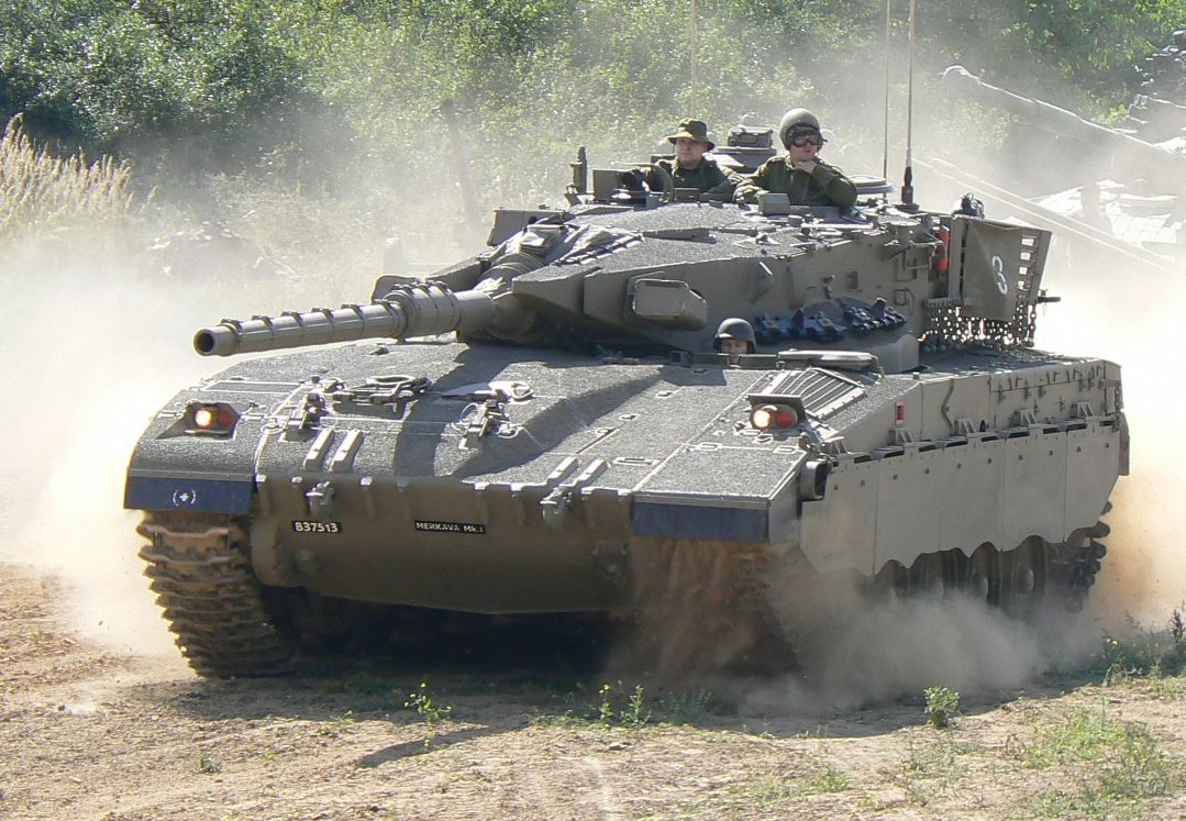 Israeli tank Merkava Mk. 1 during the 6th Tank Day in Lešany Military Technical Museum, Czech Republic